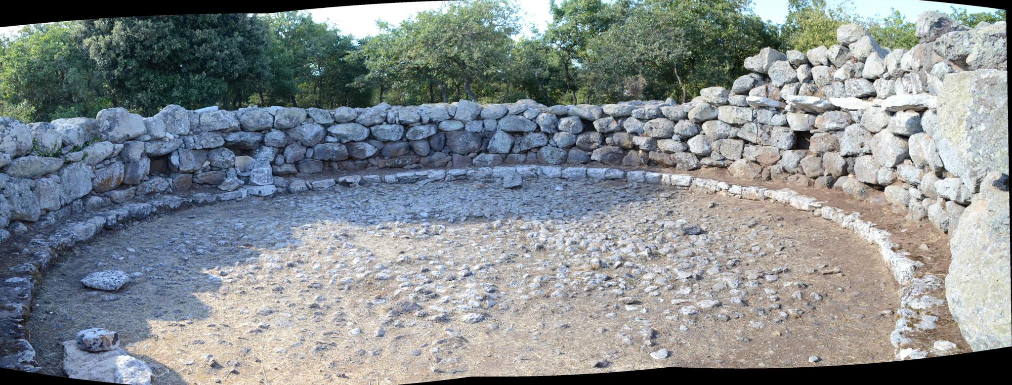 capanna delle riunioni (curia)